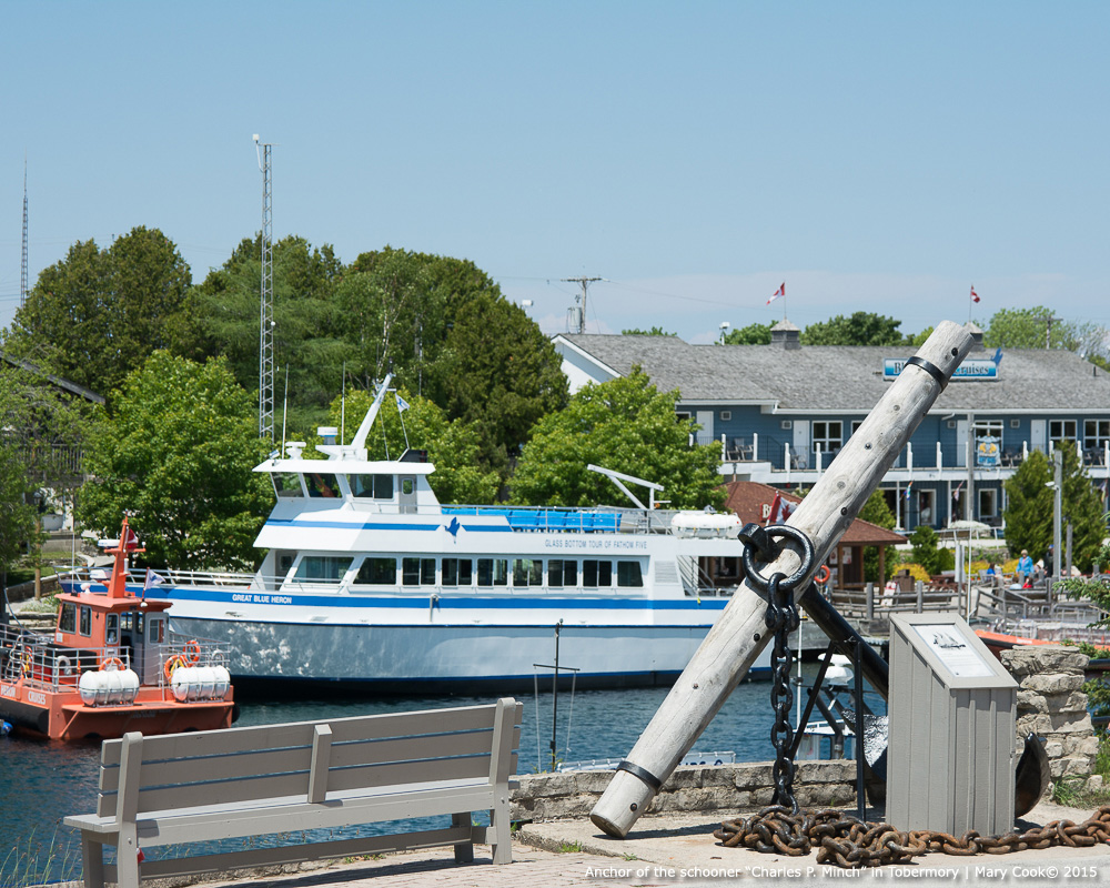 Anchor of the schooner "Charles P. Minch" in Tobermory, Ontario